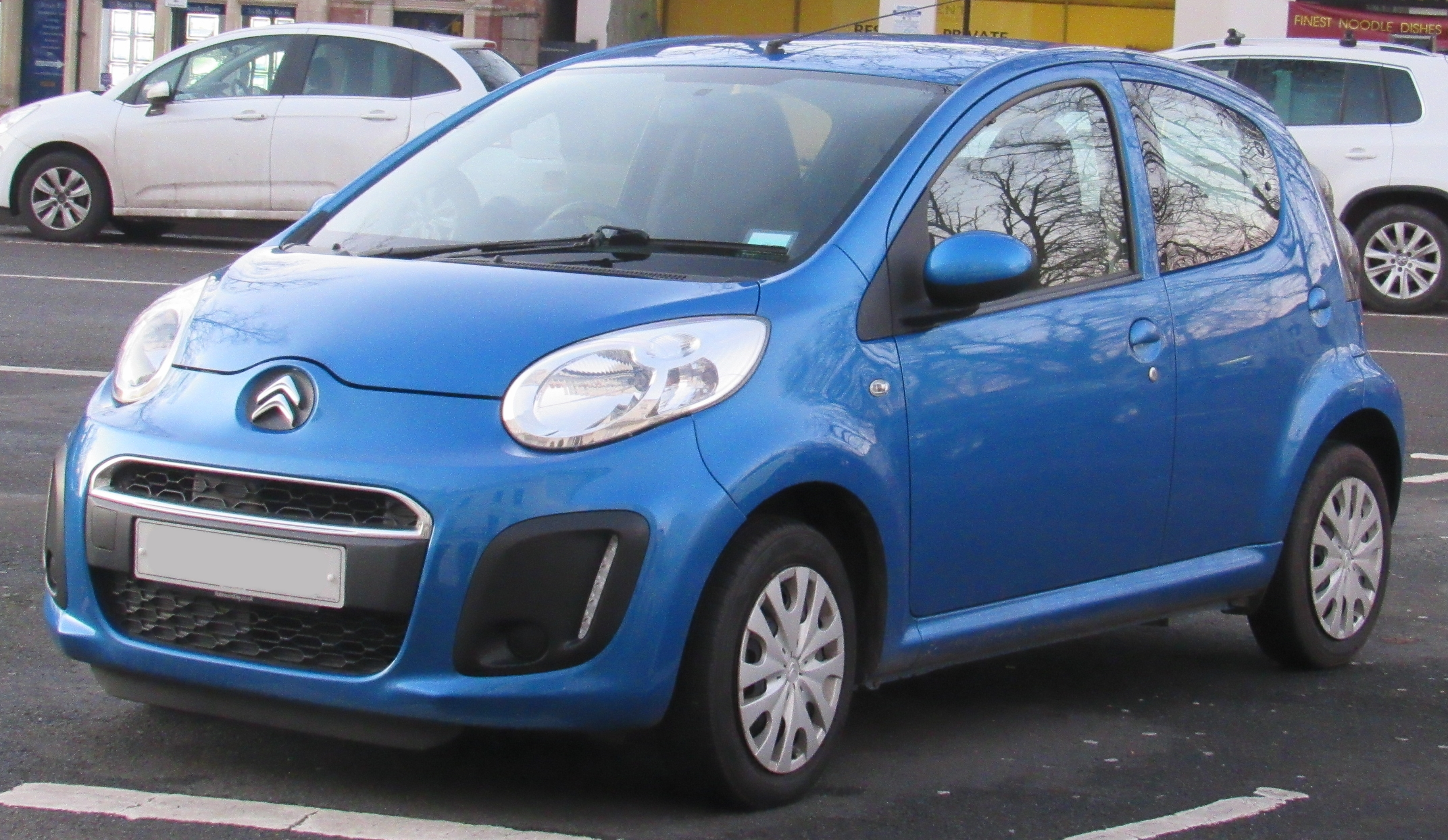 2013 Citroen C1 VTR facelift 1.0 Taken in Leamington Spa